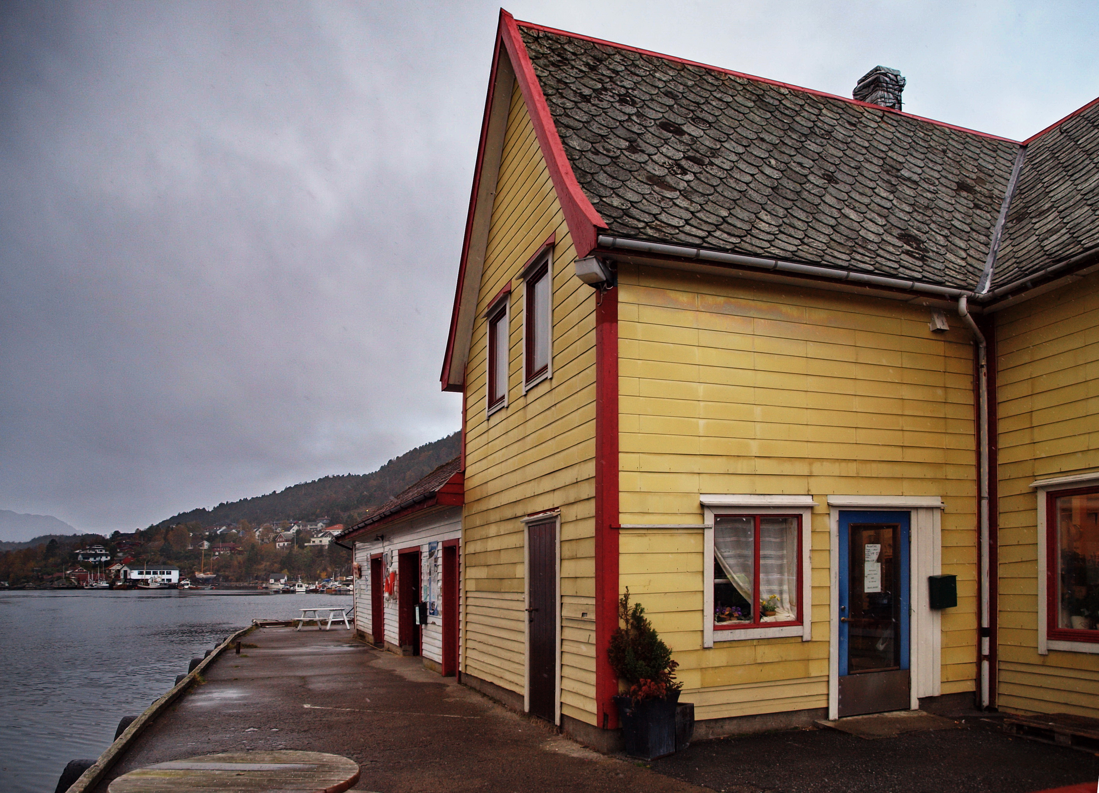 Eivindvik, Gulen municipality, Sogn og Fjordane county, Norway.